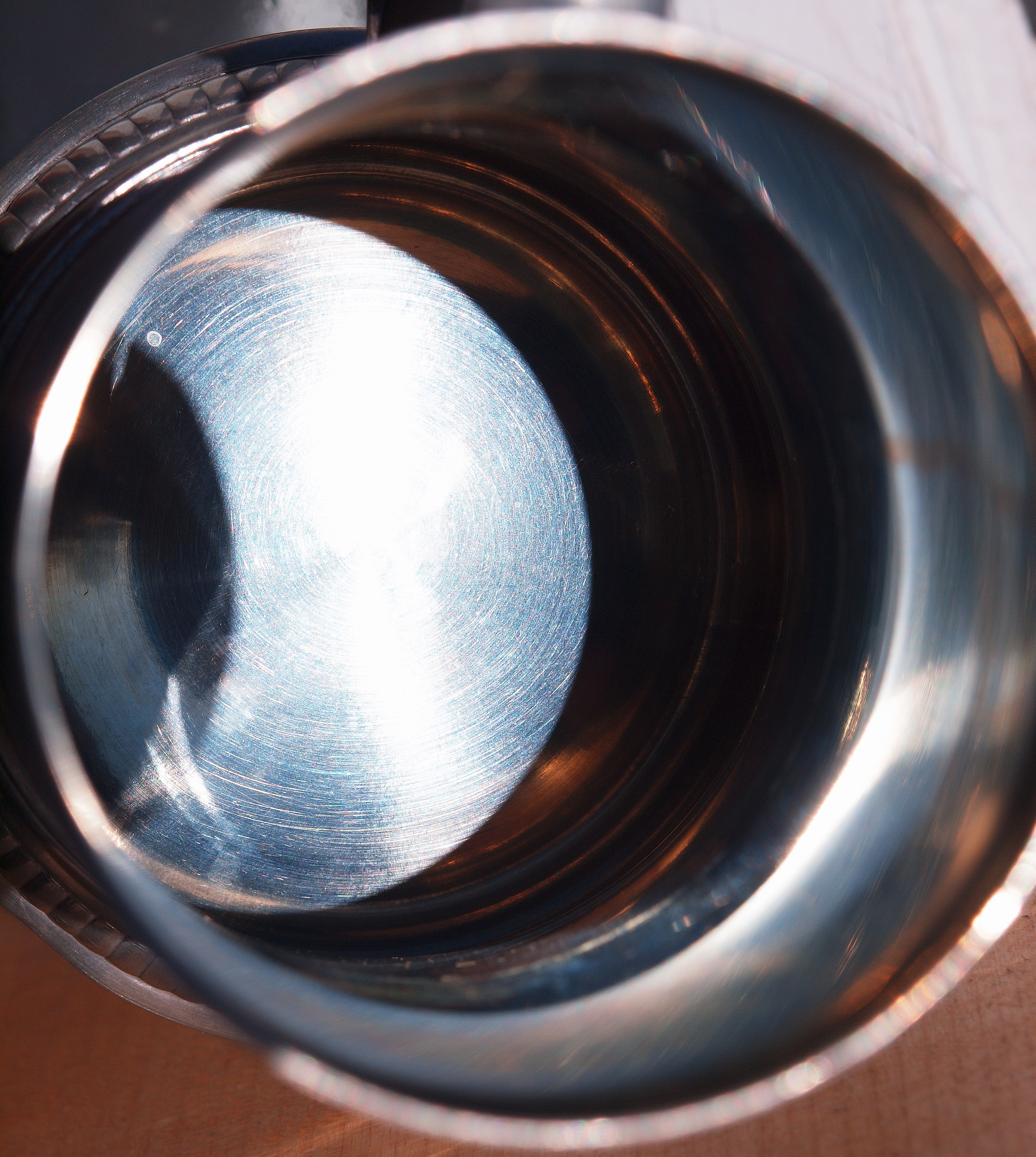 Gesellenstück P. Cikovac L. Mory GmbH